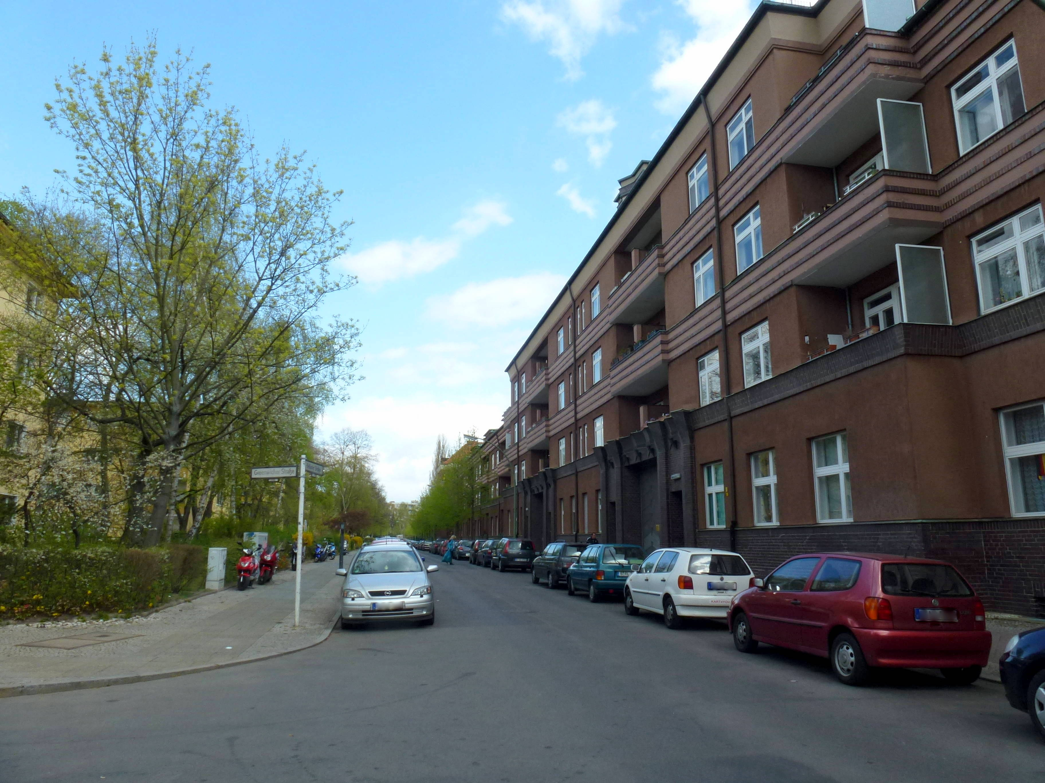 Berlin-Wedding Belfaster Straße